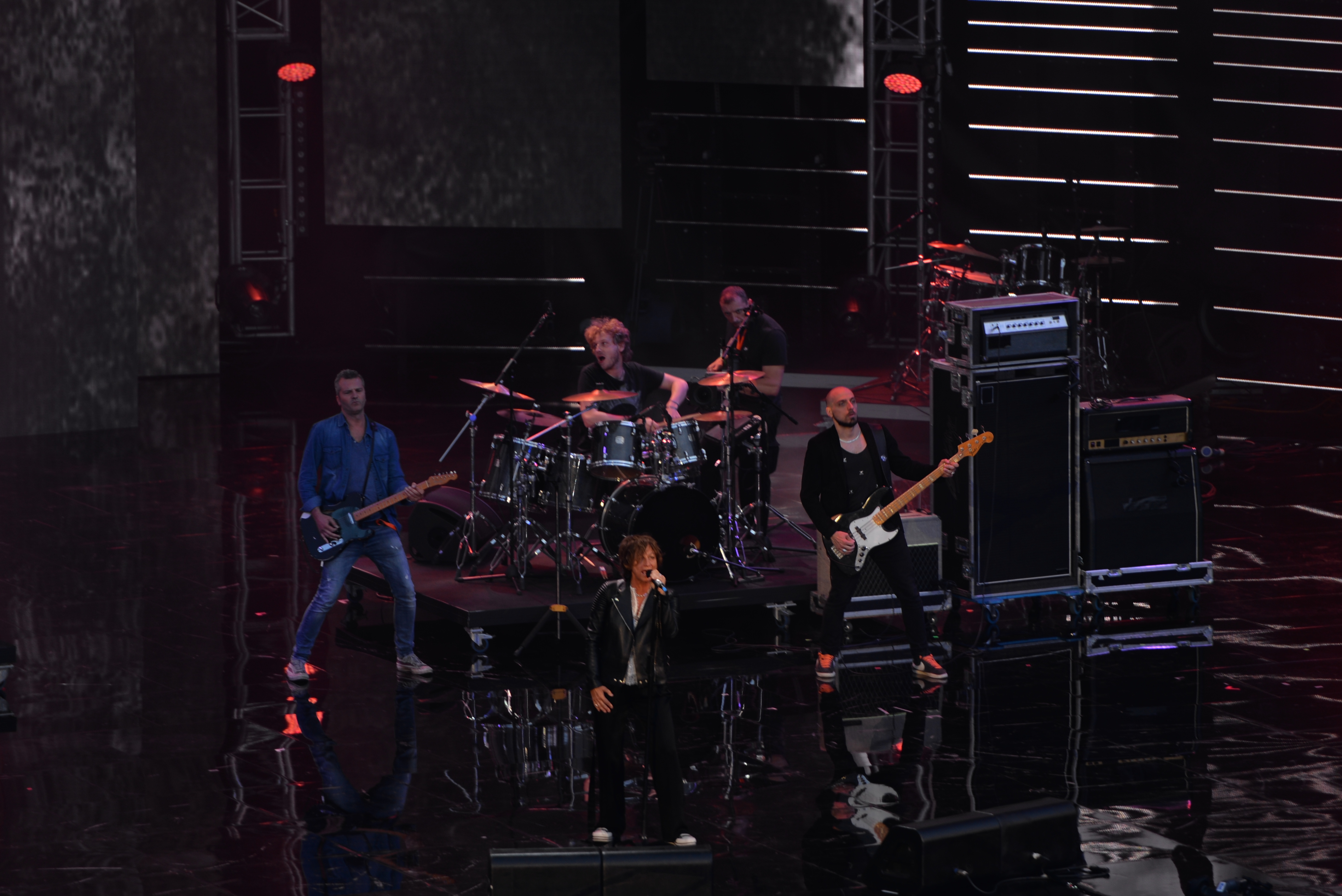 Gianna Nannini at the Wind Music Awards 2016 ceremony at Verona Arena